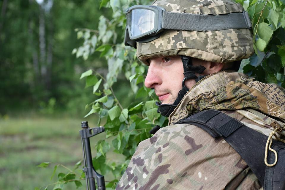 95th Air Assault Brigade training, 2017 (Ukraine)